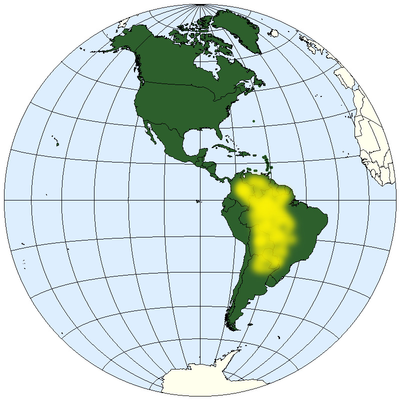 species of frog found in Argentina, Bolivia, Brazil, Colombia, French Guiana, Guyana, Paraguay, Suriname, and Venezuela